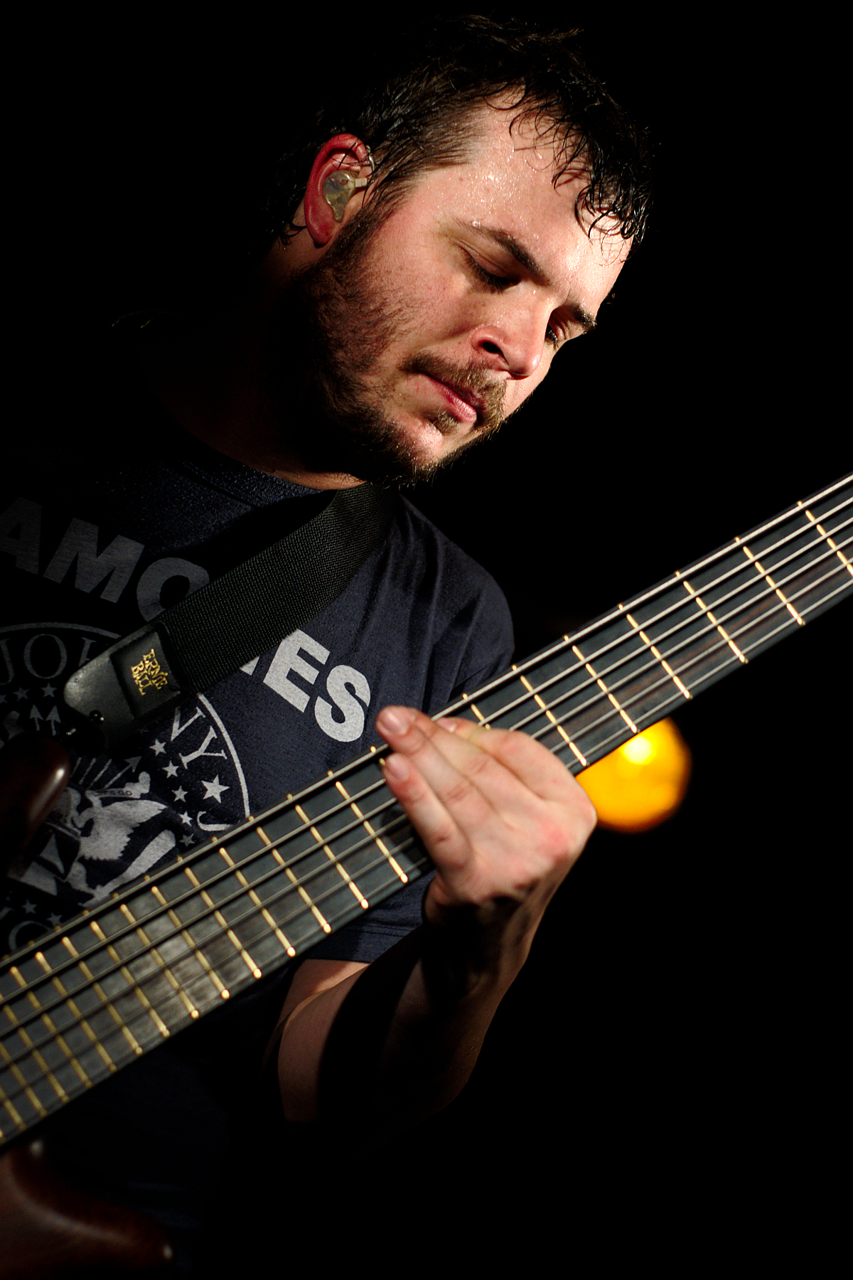 Jon Stockman, bassist of Australian rock band Karnivool, during a concert at Stuttgart club Universum on 2010-12-11. View in my concert gallery.